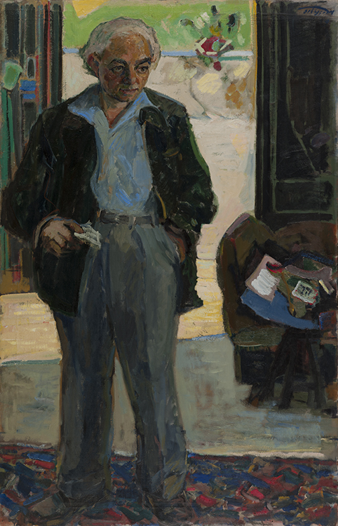 Painting of Moshe Rosenthalis.